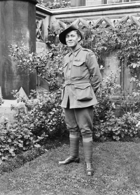 A black and white portrait of Phillip Davey, an Australian Victoria Cross recipient